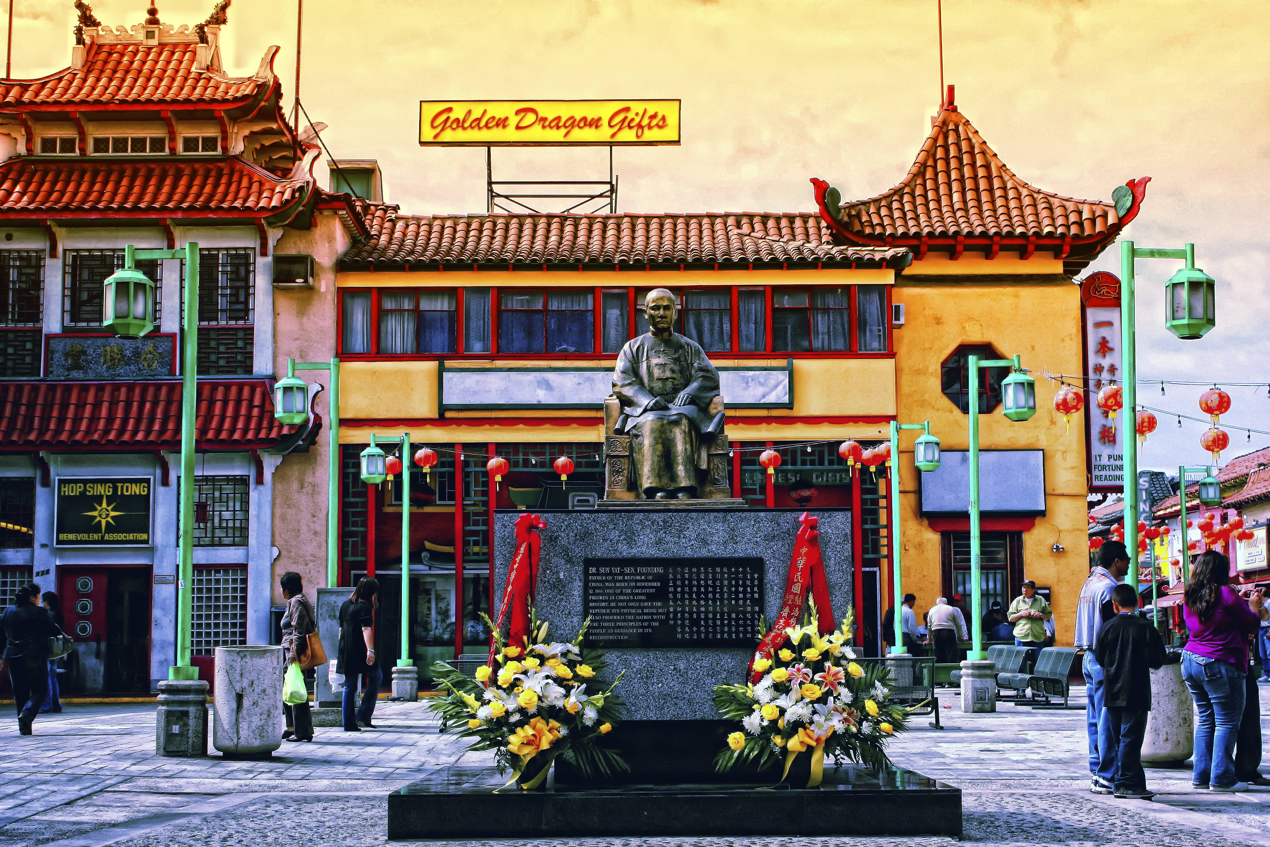 A statue dedicated to Dr. Sun Yat Sen, Can be found in the center of Chinatown